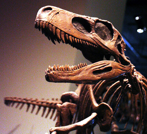 Herrerasaurus skull, at the Field Museum in Chicago, Illinois